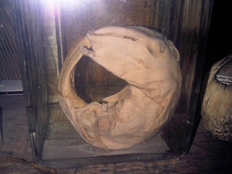 Fin whale (Balaenoptera physalus) fetus at Grant Museum of Zoology in London, England.